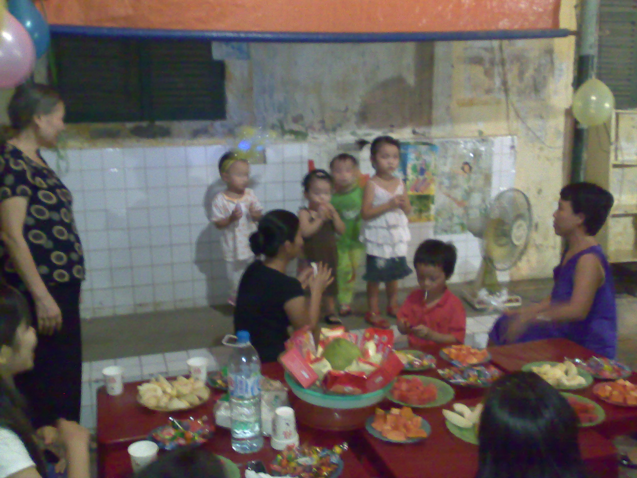 Children`s Mid-Autumn Festival